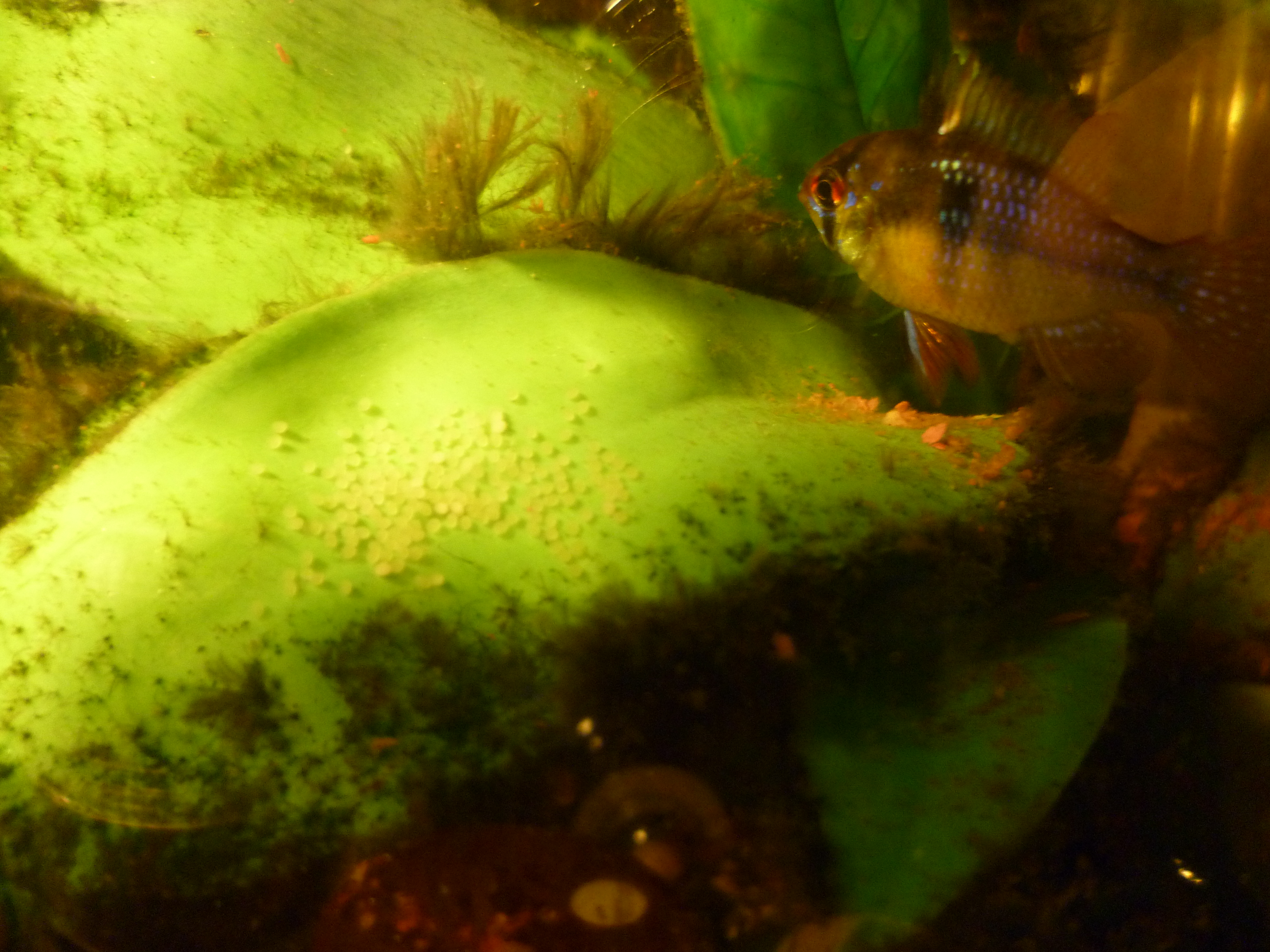 Blue ram fanning her eggs